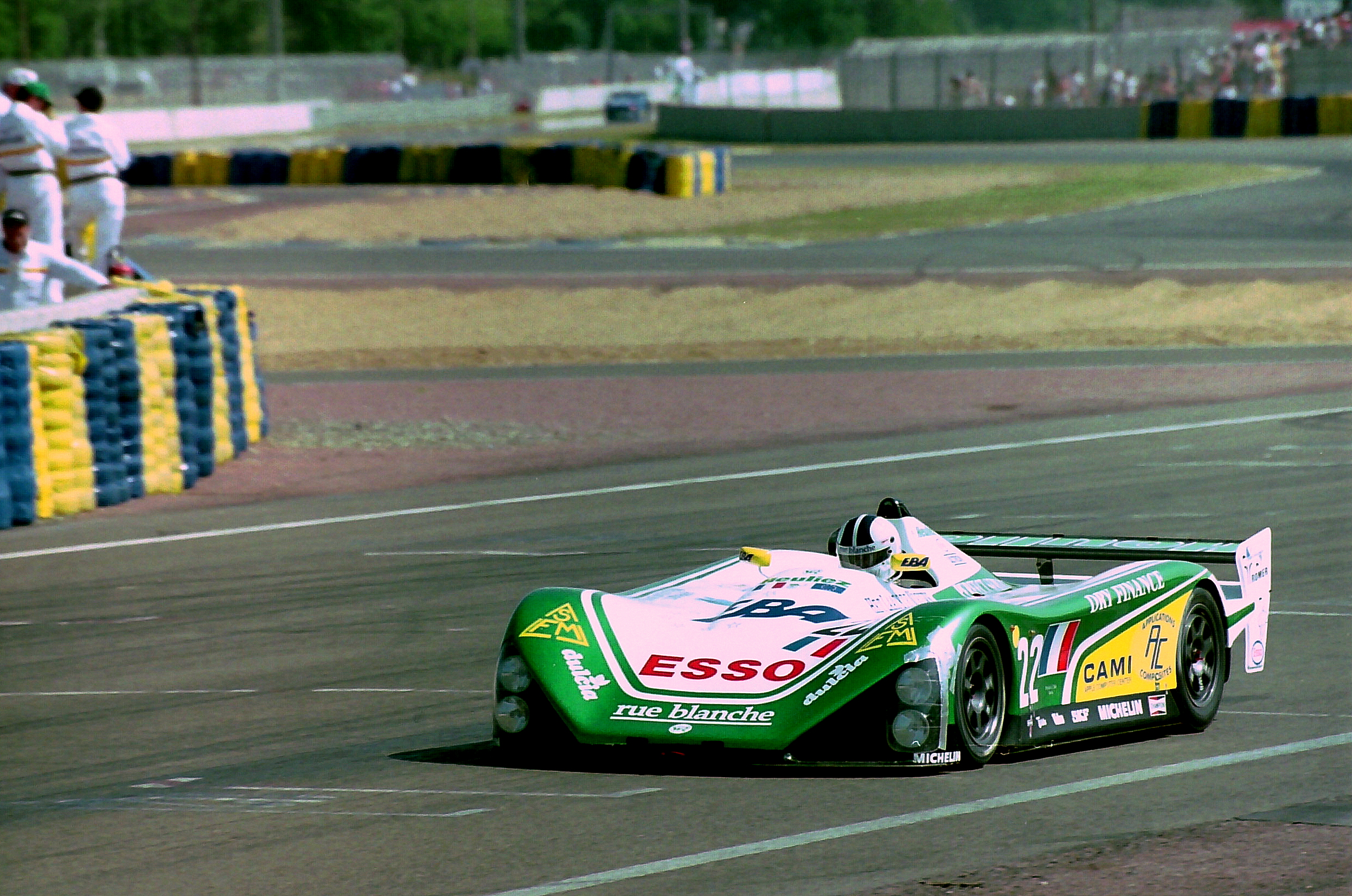 WR LM94 - Herve Regout, Jean-Francois Yvon, Marc Rostan, Stephane Ortelli, Patrick Gonin & Pierre Petit heads onto the pit straight at the 1994 Le Mans